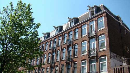 Westerpark, houses